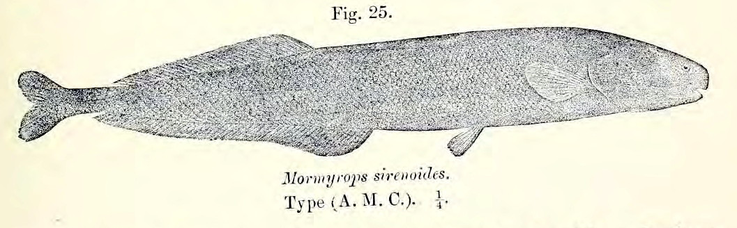 Mormyrops sirenoides Boulenger, 1898